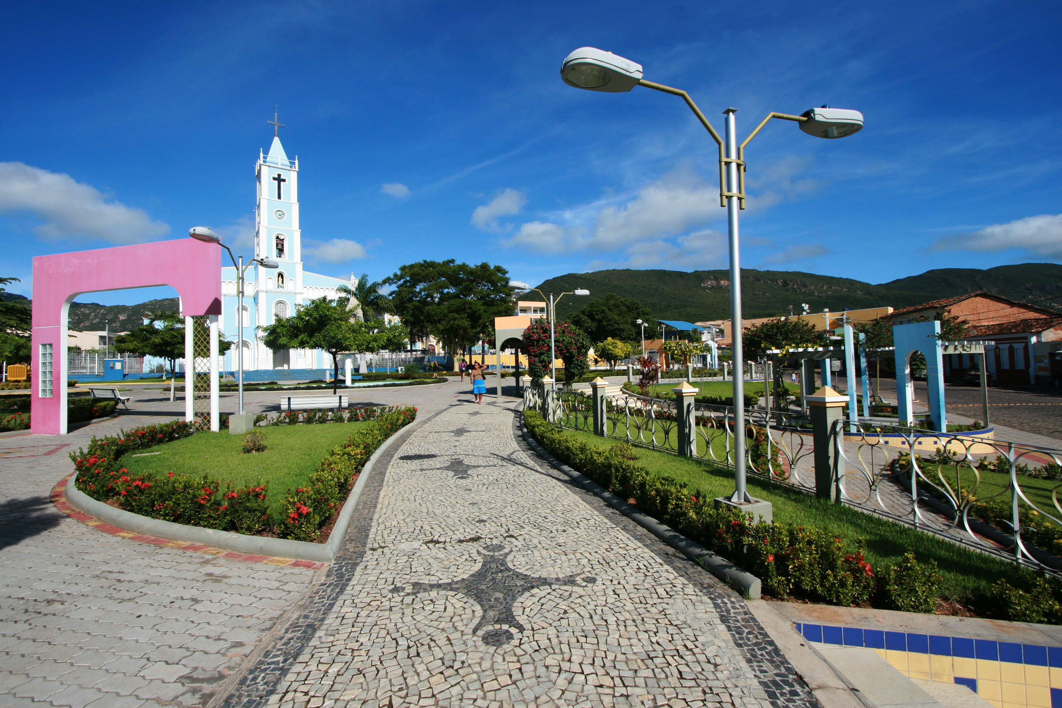 Plenária do Plano Plurianual Participativo em MacaúbasNa foto: Praça de MacaúbasAutora: Carol Garcia / AGECOM